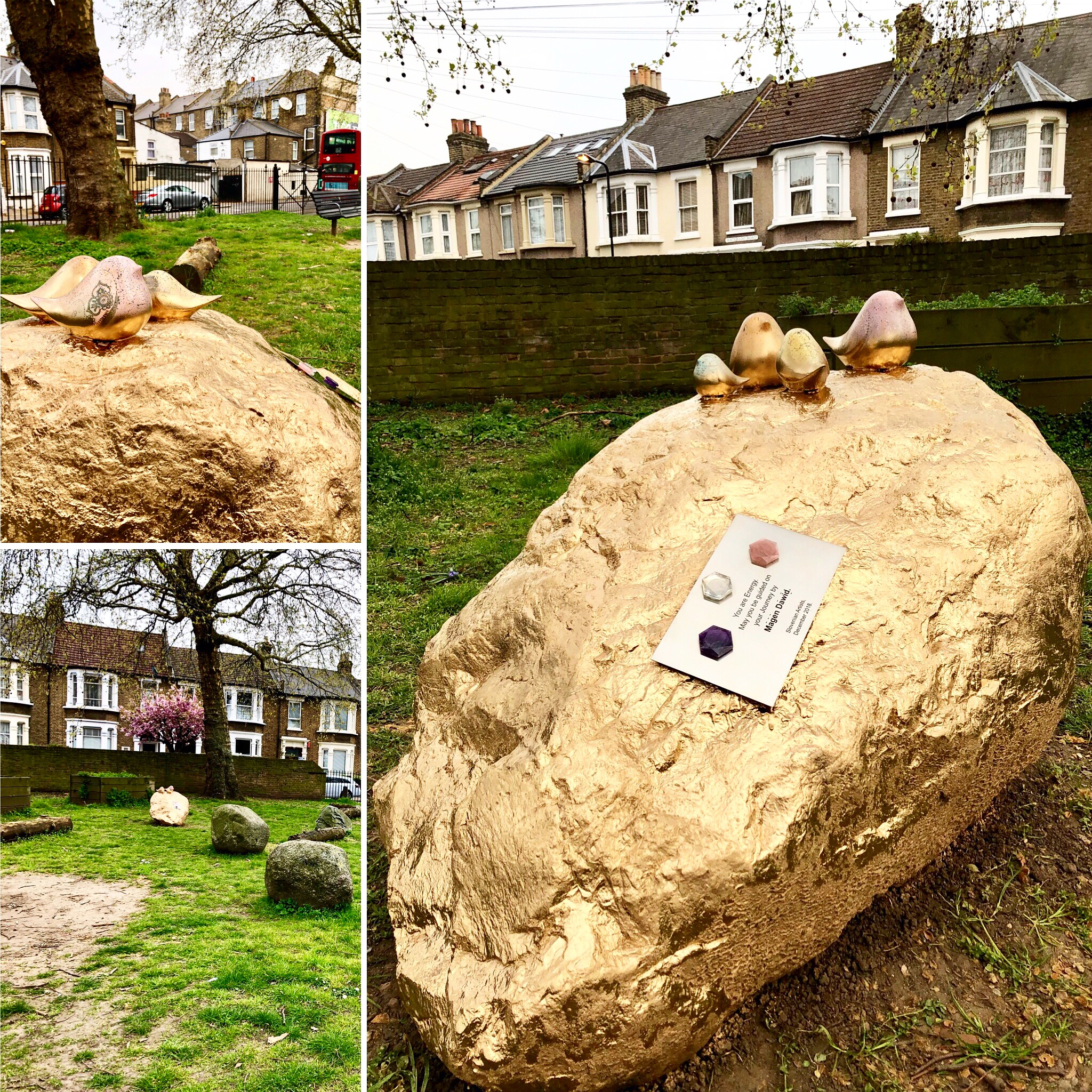 Energy Sculpture placed in Lea Bridge Library - Friendship Gardens London